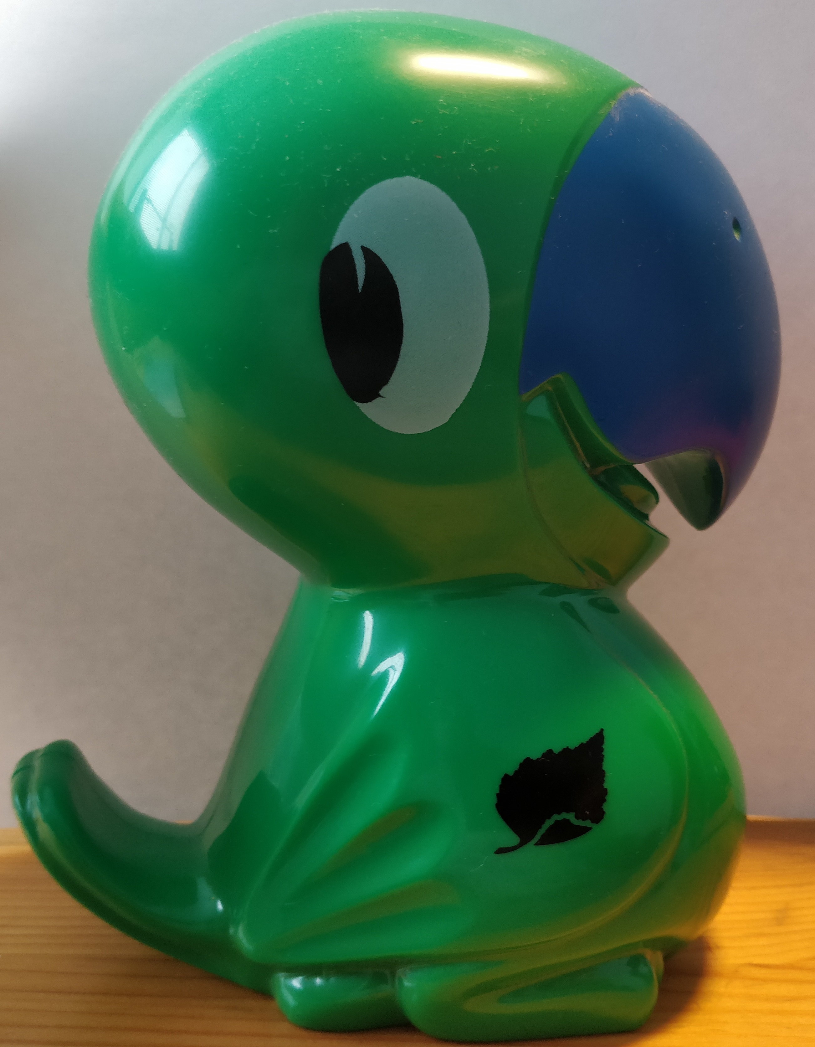 Photograph of a piggy bank (Pop Pankki).